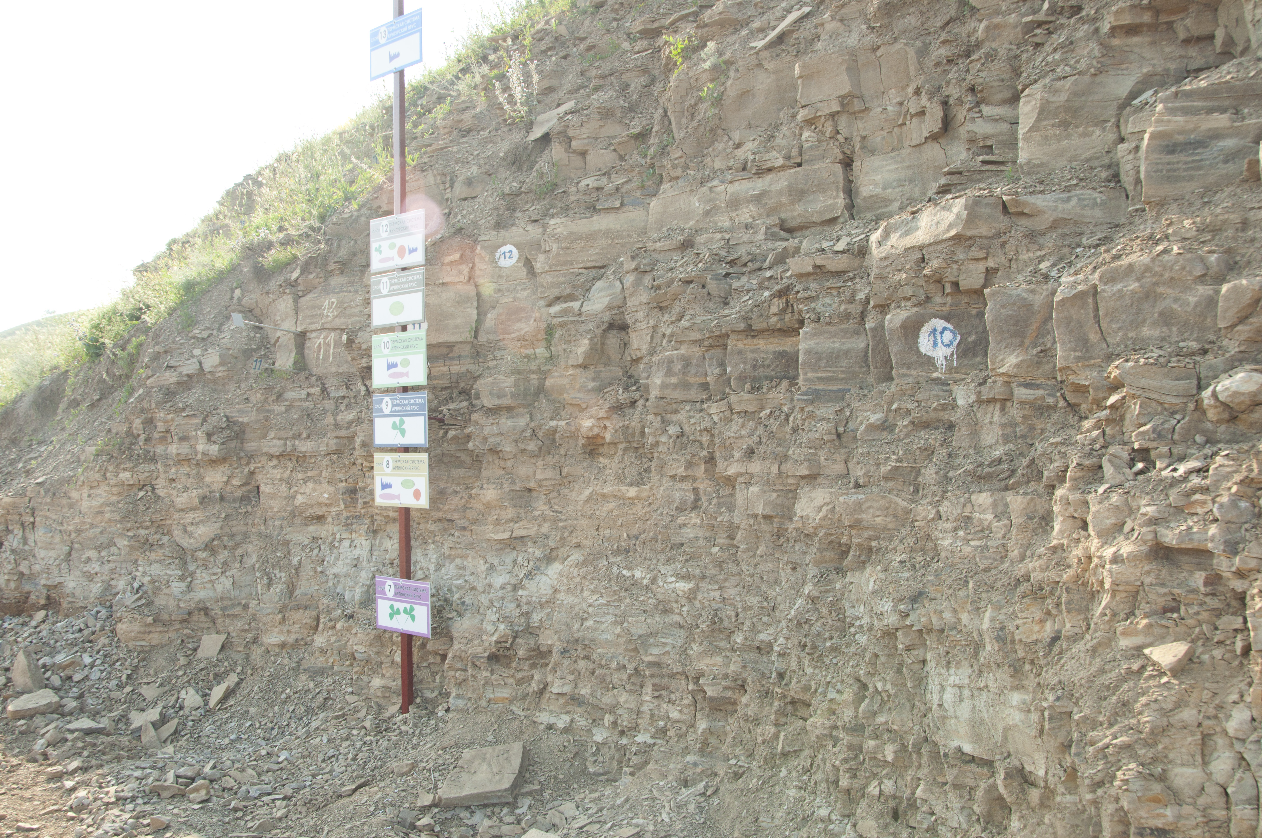 Mechetlino geology section